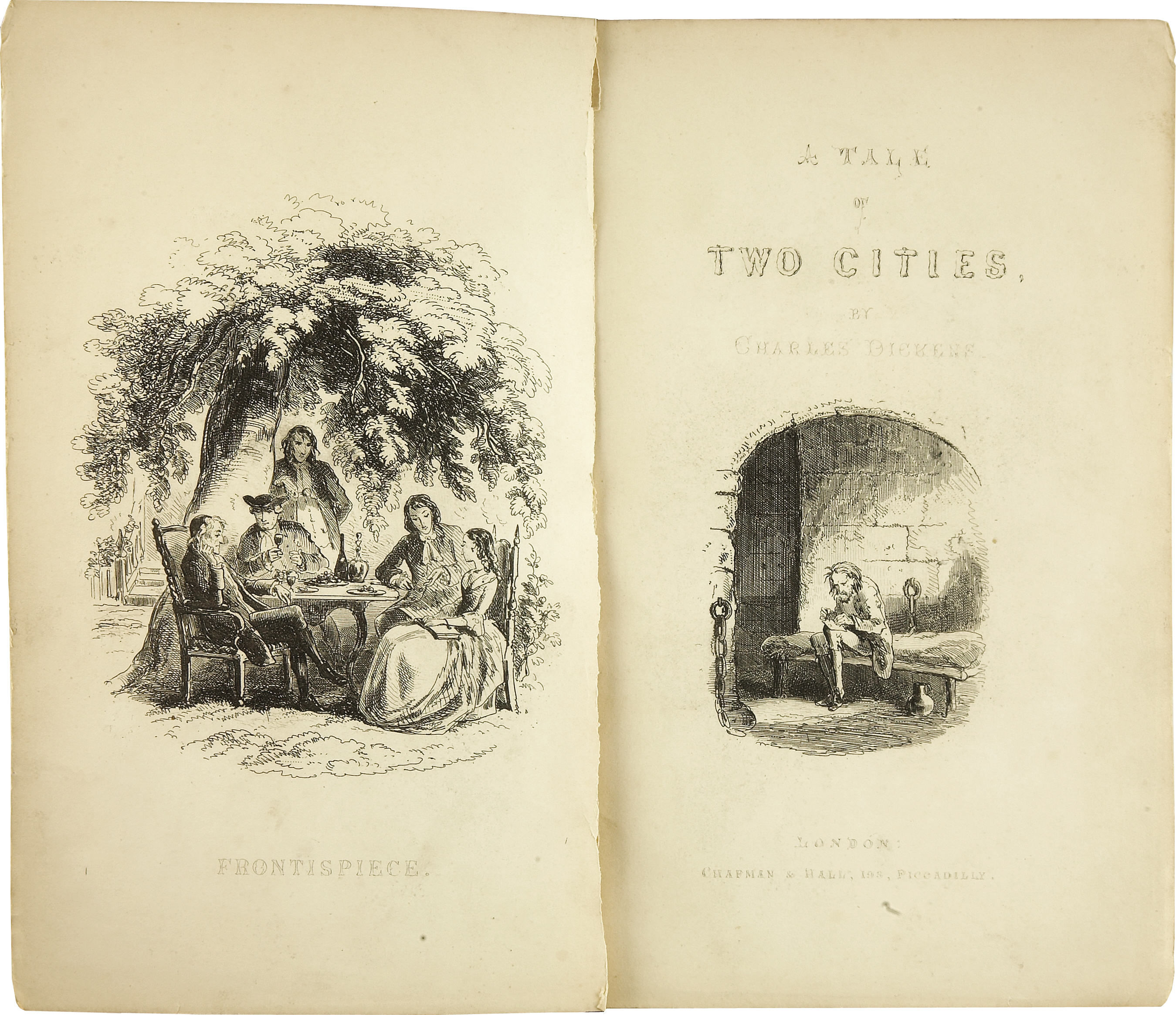 Charles Dickens: A Tale of Two Cities. With Illustrations by H. K. Browne. London: Chapman and Hall, 1859. First edition